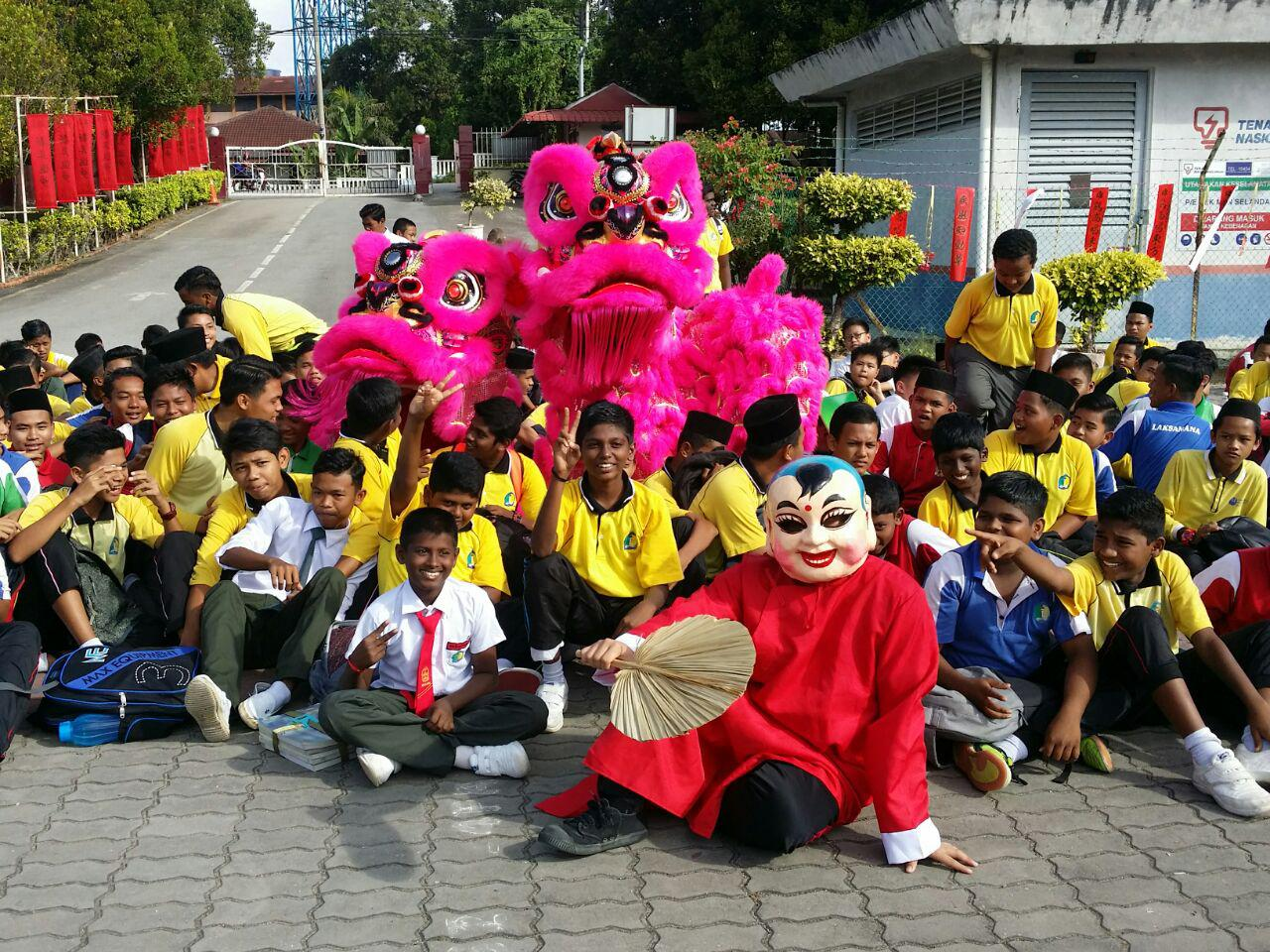 CNY 7